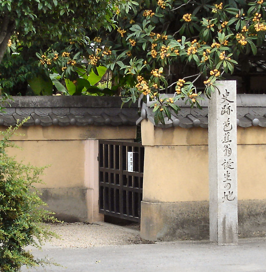 The birthplace of Basho Matsuo